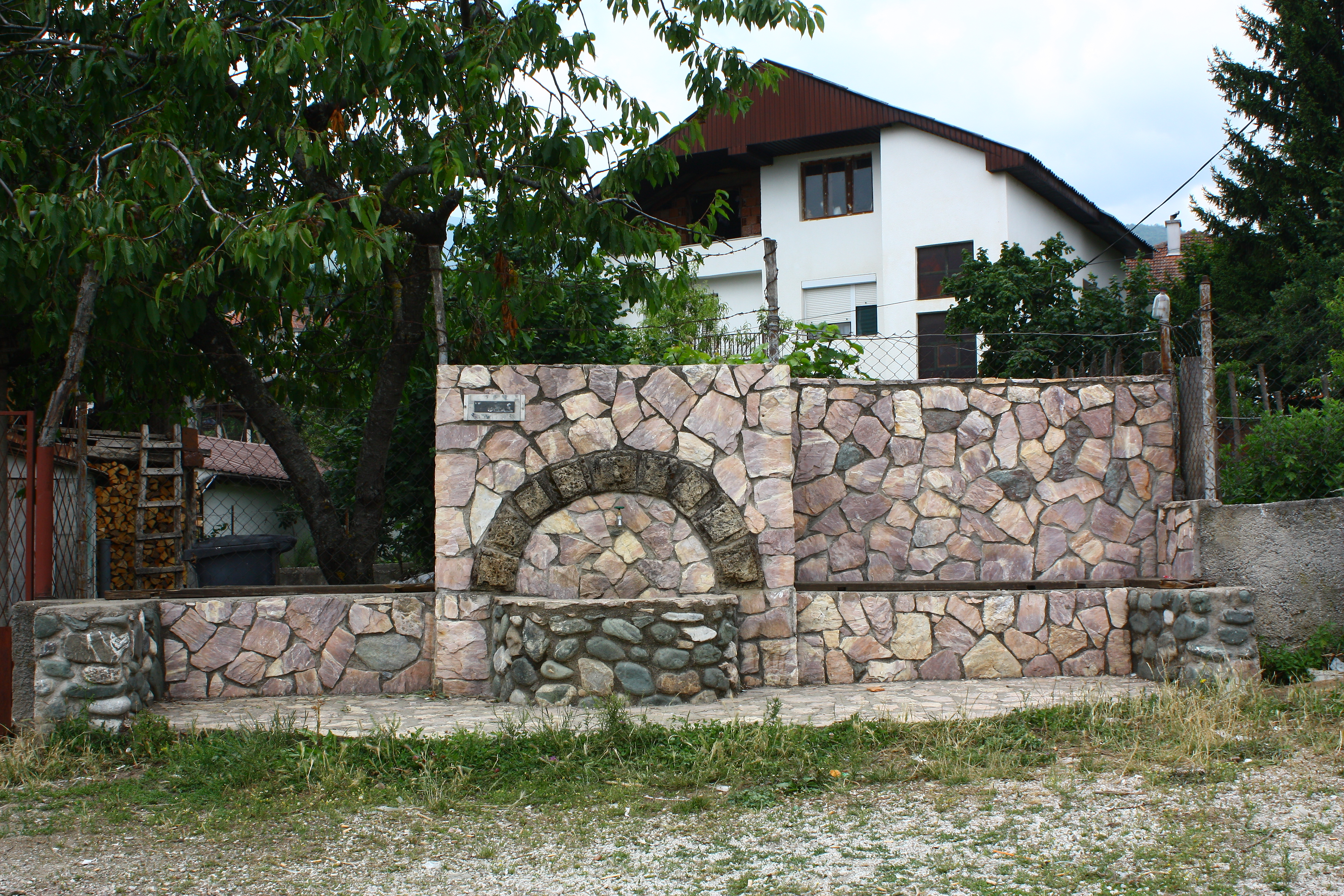 Raokina Češma, Zubovce, Macedonia